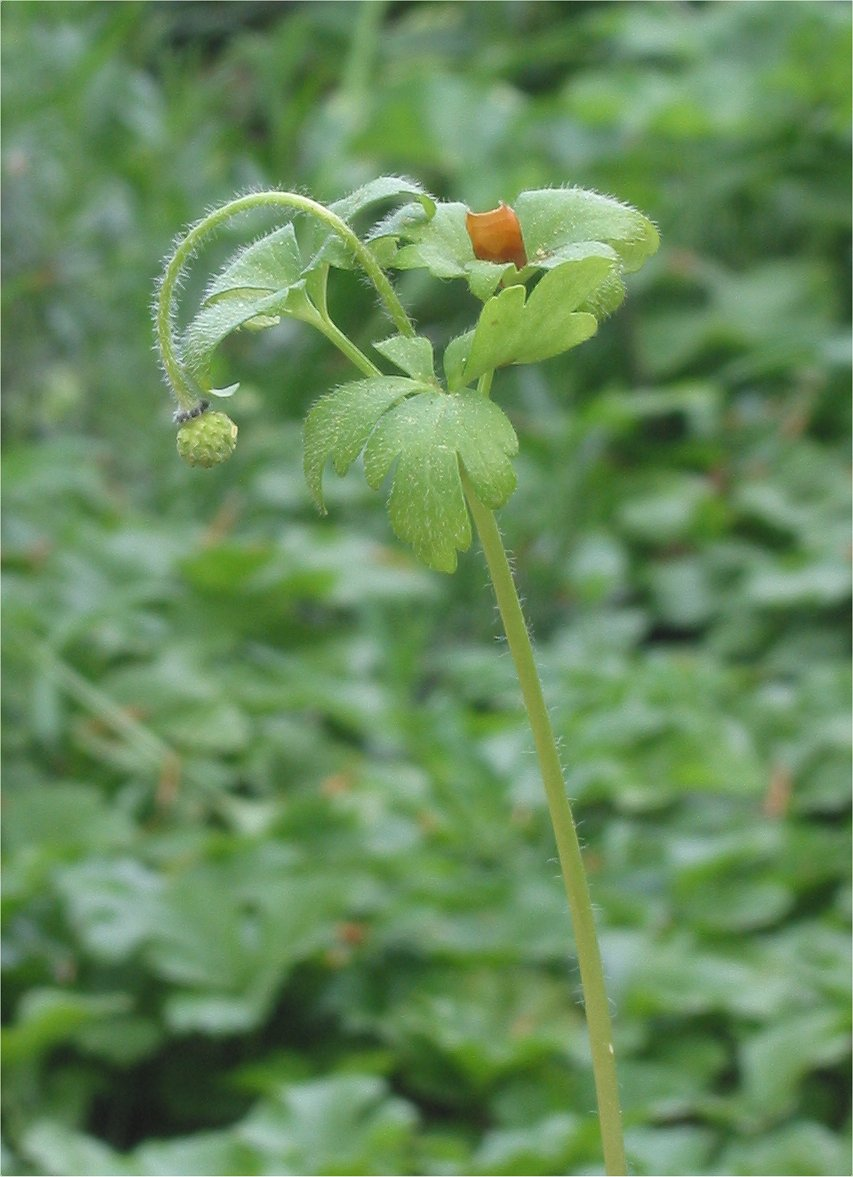 Anemone blanda fruiting